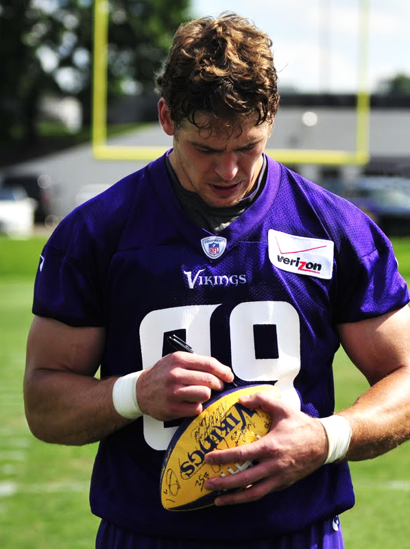 Minnesota Vikings TE John Carlson